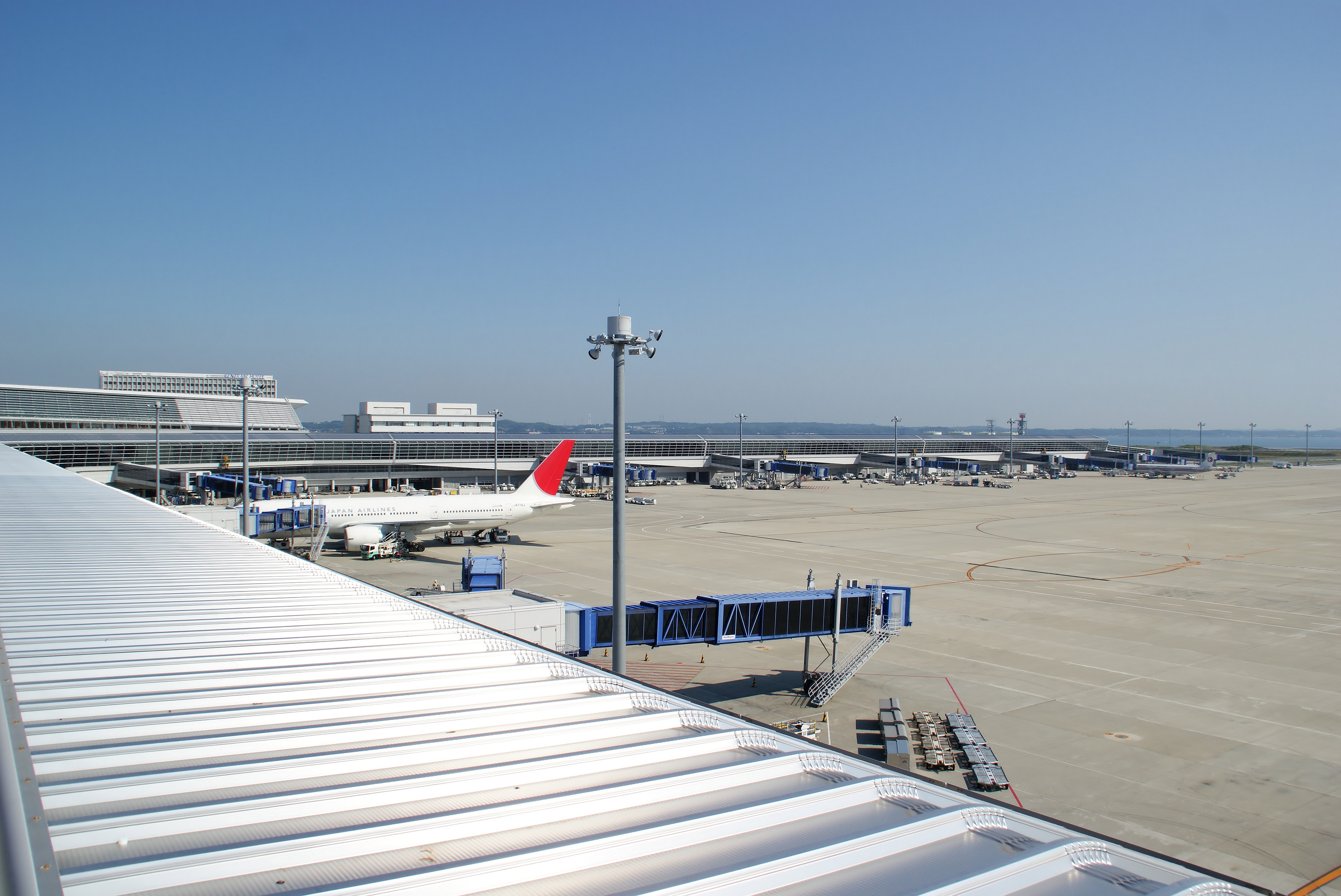 PBT of South Wing, Chubu Centrair International Airport.(Tokoname City, Aichi Prefecture, Japan)